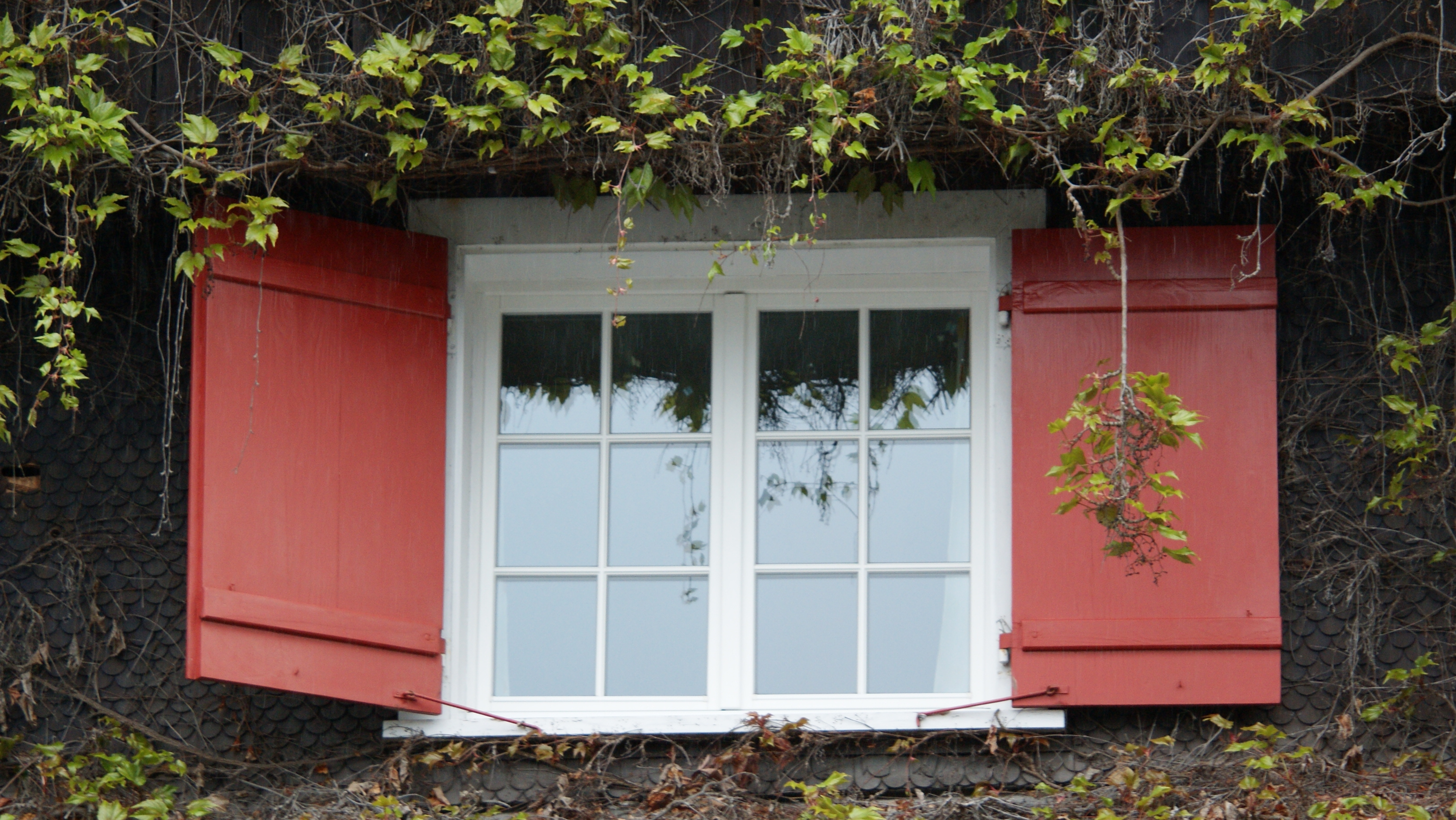 Window in the House / old blacksmiths house in the Kehlerstraße 52 in Dornbirn, Vorarlberg, Austria.